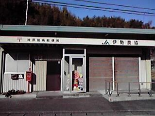 Store of Ise agricultural cooperative association in Minaiise town,Mie prefecture,Japan. A simple post office is established as an annex.